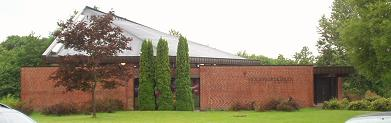 Vejlefjord Adventist church, exterior